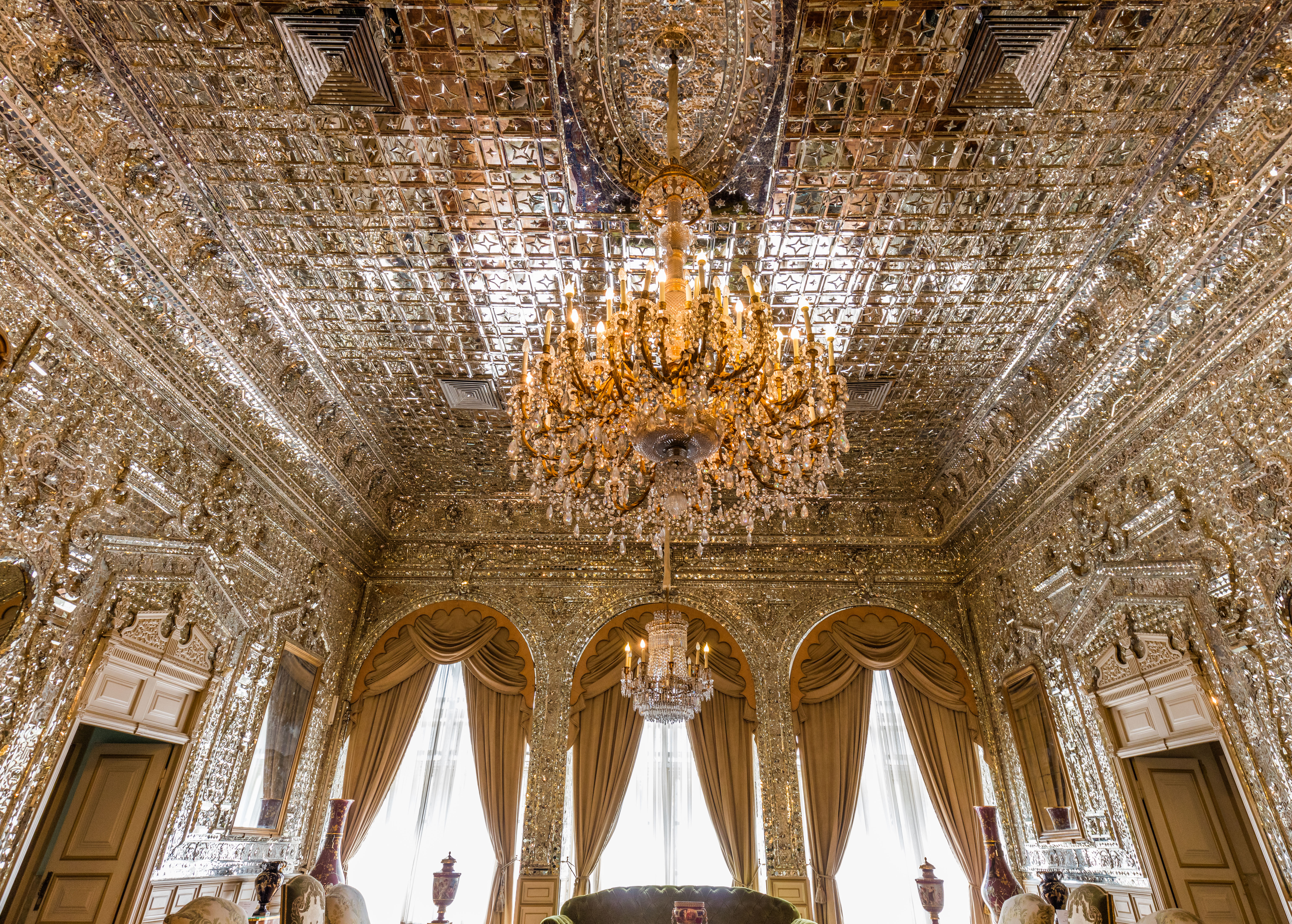 Golestan Palace, Tehran, Iran